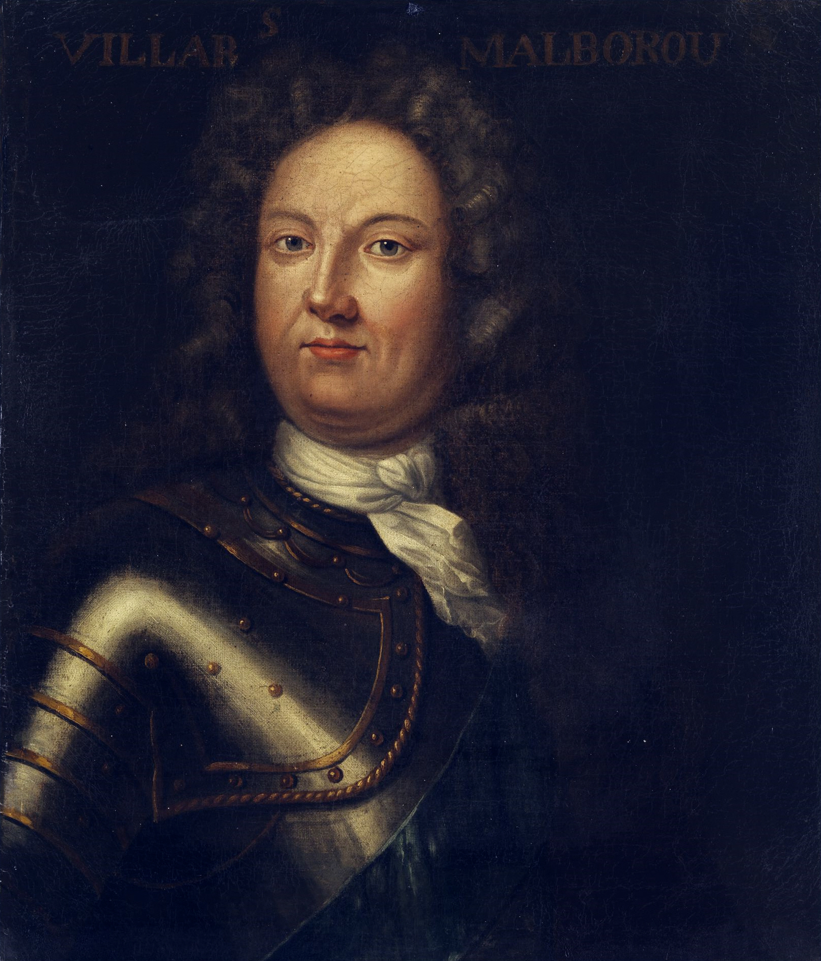 PORTRAIT DES JOHN CHURCHILL, DUKE OF MARLBOROUGH (1650 - 1722) Counterpart: File:William III England 18th century.jpg